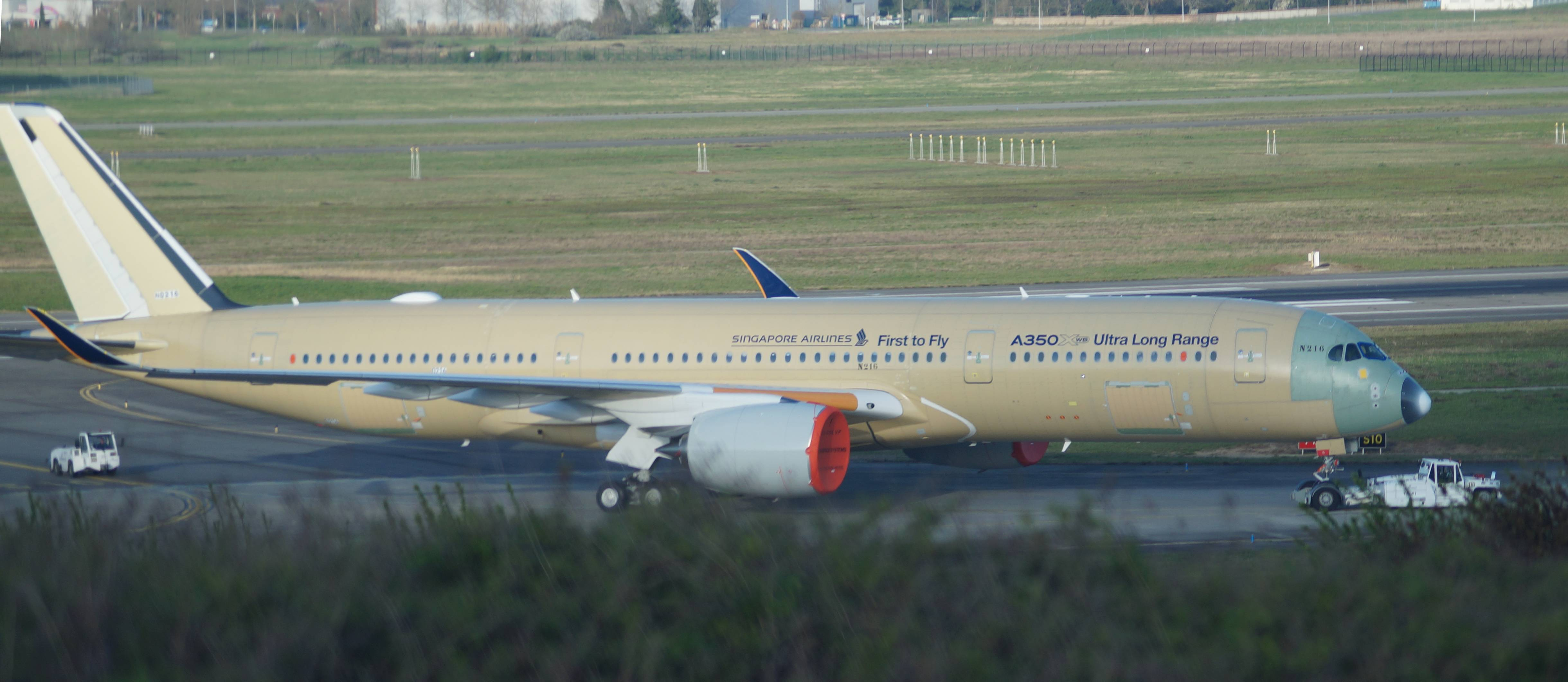 Airbus A350-900 XWB Ultra Long Range (in production, without painting, prepared for Singapore Airlines) on the Airport Toulouse-Blagnac